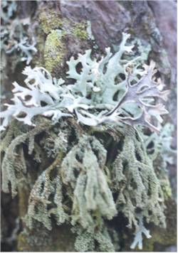 Lichen Evernia furfuraceae Author: Audrius Meskauskas Notes:Lichen Evernia furfuraceae (Elk horns). Picture made by the comitter,Audrius Meskauskas , in the forests of Lithuania. In the image, the lichen grows on pine (Pinus sylvestris), in the pine forest.